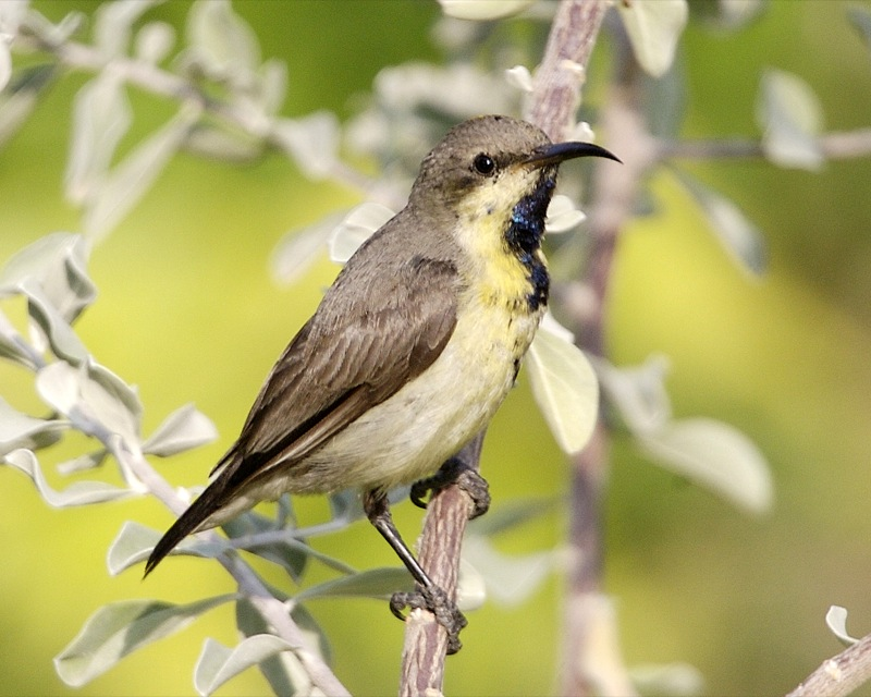 This is an eclipse male. While I have seen photos of the male in its full glory , the yellow patch on the crown is not commonly visible. None of the guides I have referred to mention it as a distinguishing mark. Presumably with all the features and colors being so obvious in the field this minor mark is of relatively little importance. Purple Sunbird Cinnyris asiaticus Nominate race, Cinnyris asiaticus asiaticus 5th. January 2009 Jhalana Dungri , Jaipur, India Distribution: 690V8700